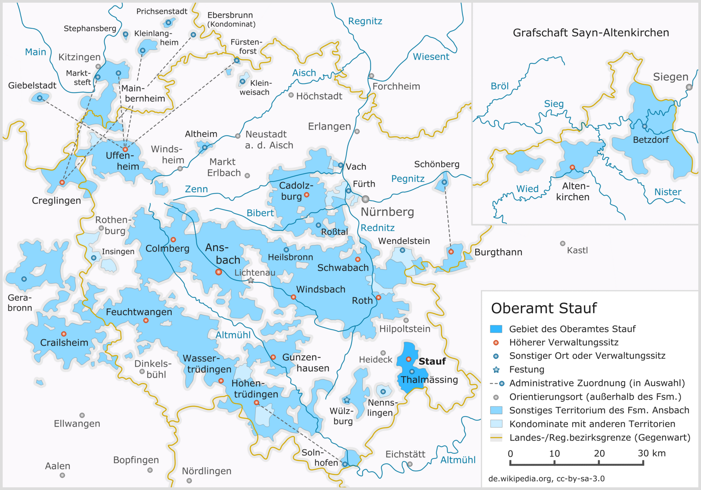 Map of the Oberamt Stauf